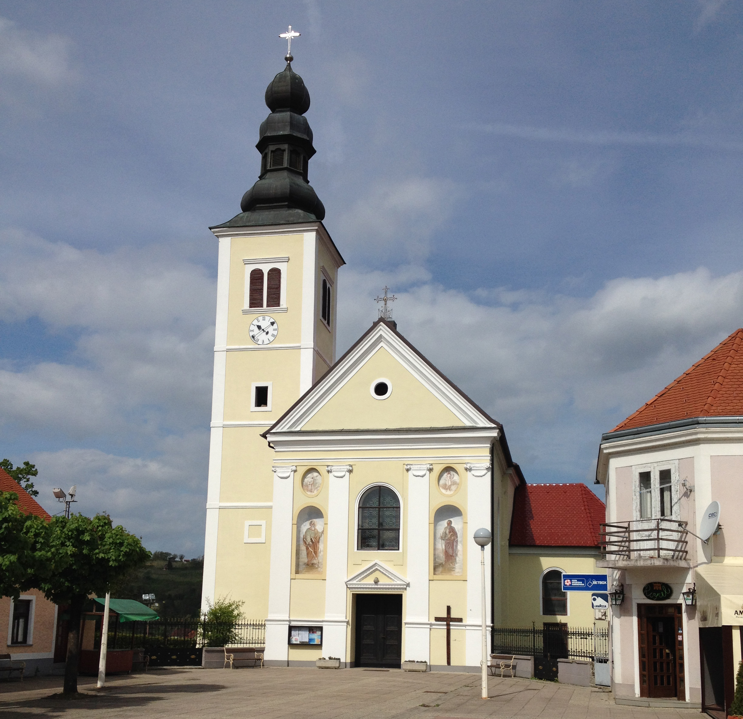 Parish church - Svetog Križa in town Začrjetje